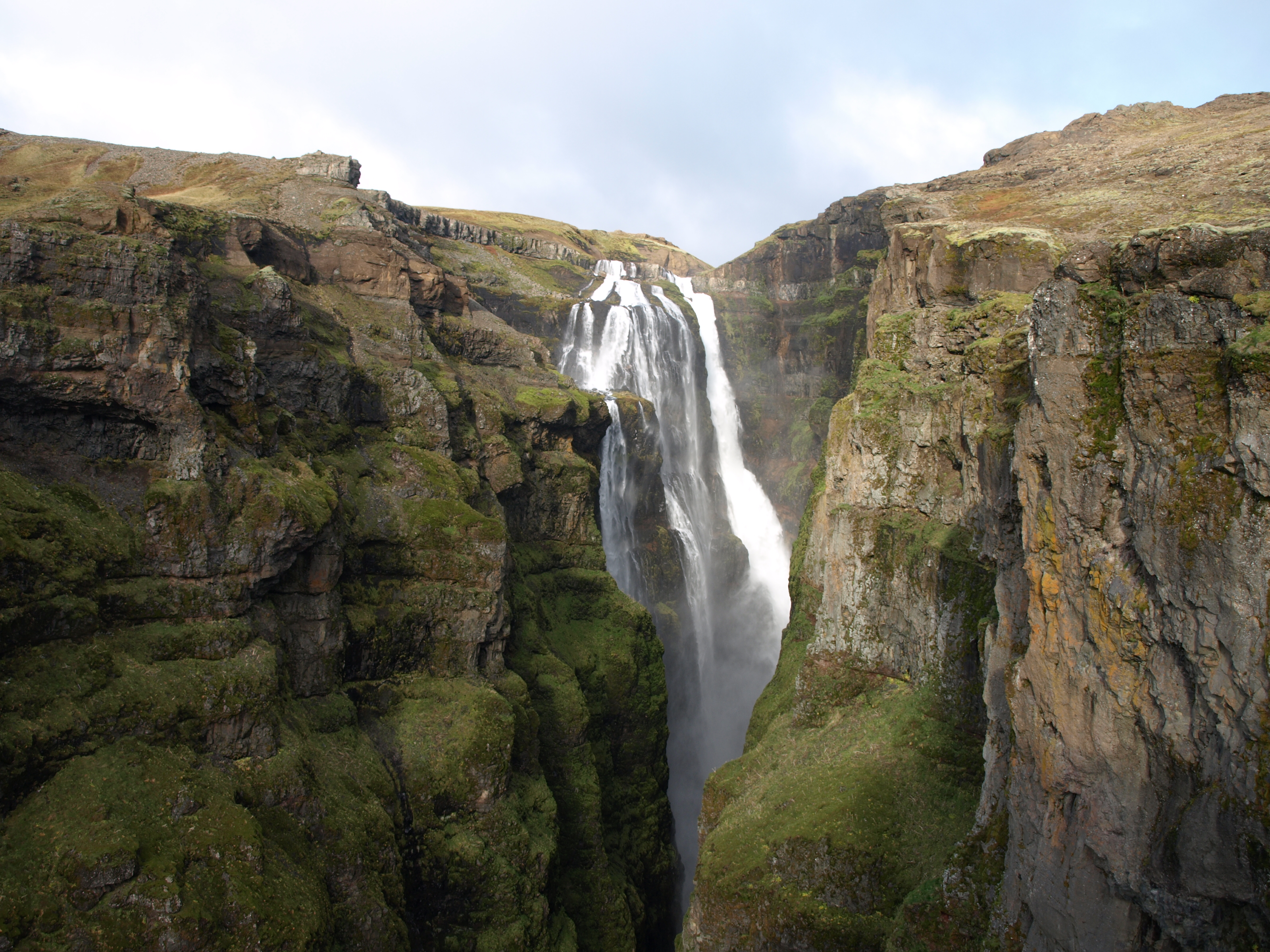 A pan view of Glymur, the highest waterfall in Iceland.